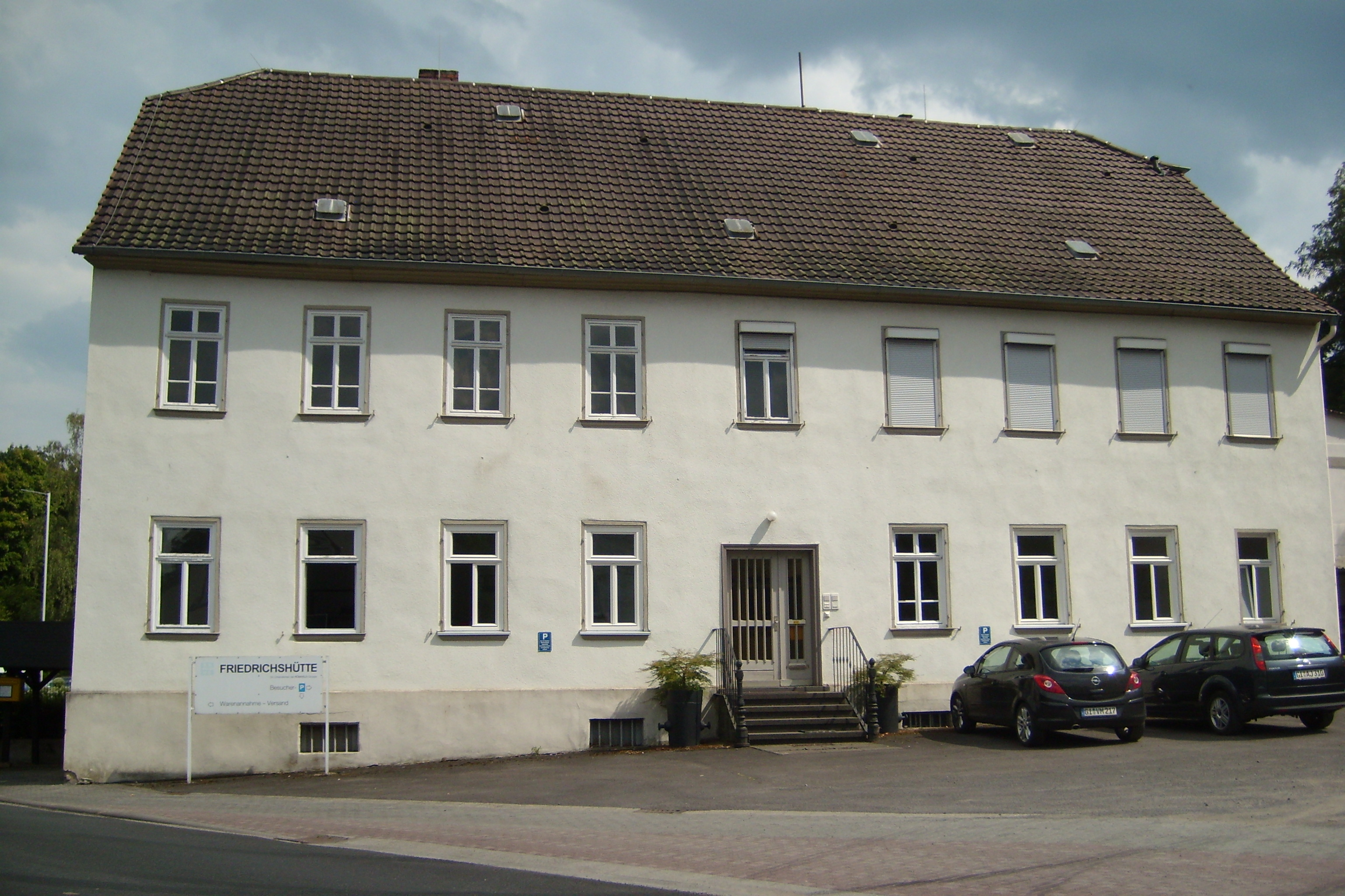 Friedrichshütte, a rural district of Laubach in Hesse - the Friedrichshütte iron-foundry, established in 1707.